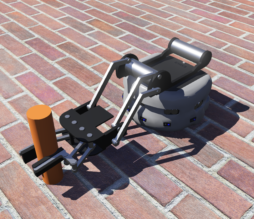 Khepera3 Simulation